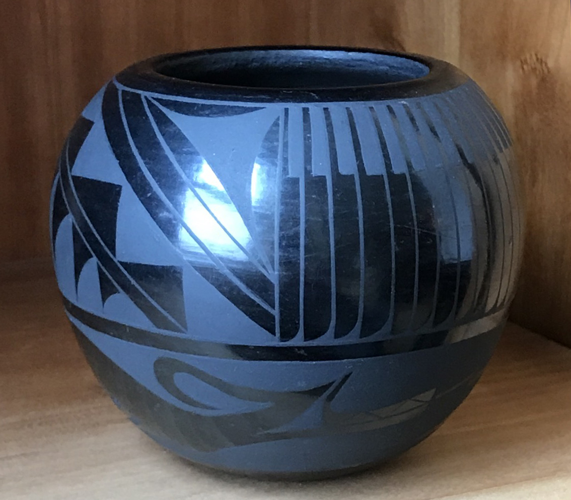 Black-on-black pot crafted by Merton and Linda Sisneros of Santa Clara Pueblo in 1991, featuring kiva steps (top left), feathers (top right), and Avanyu, spirit of water (bottom). From a private collection.